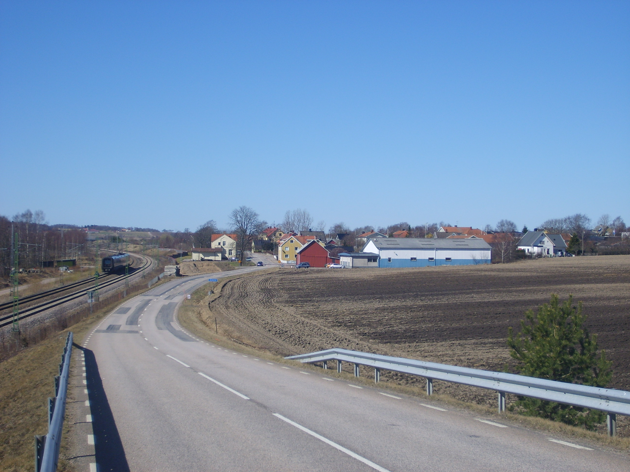 View of Heberg, a community in Sweden. West Coast Line (Västkustbanan) with an Oresundtrain (Öresundståg) is shown at the left. The white building between the tracks and the road used to be a train station in the past.